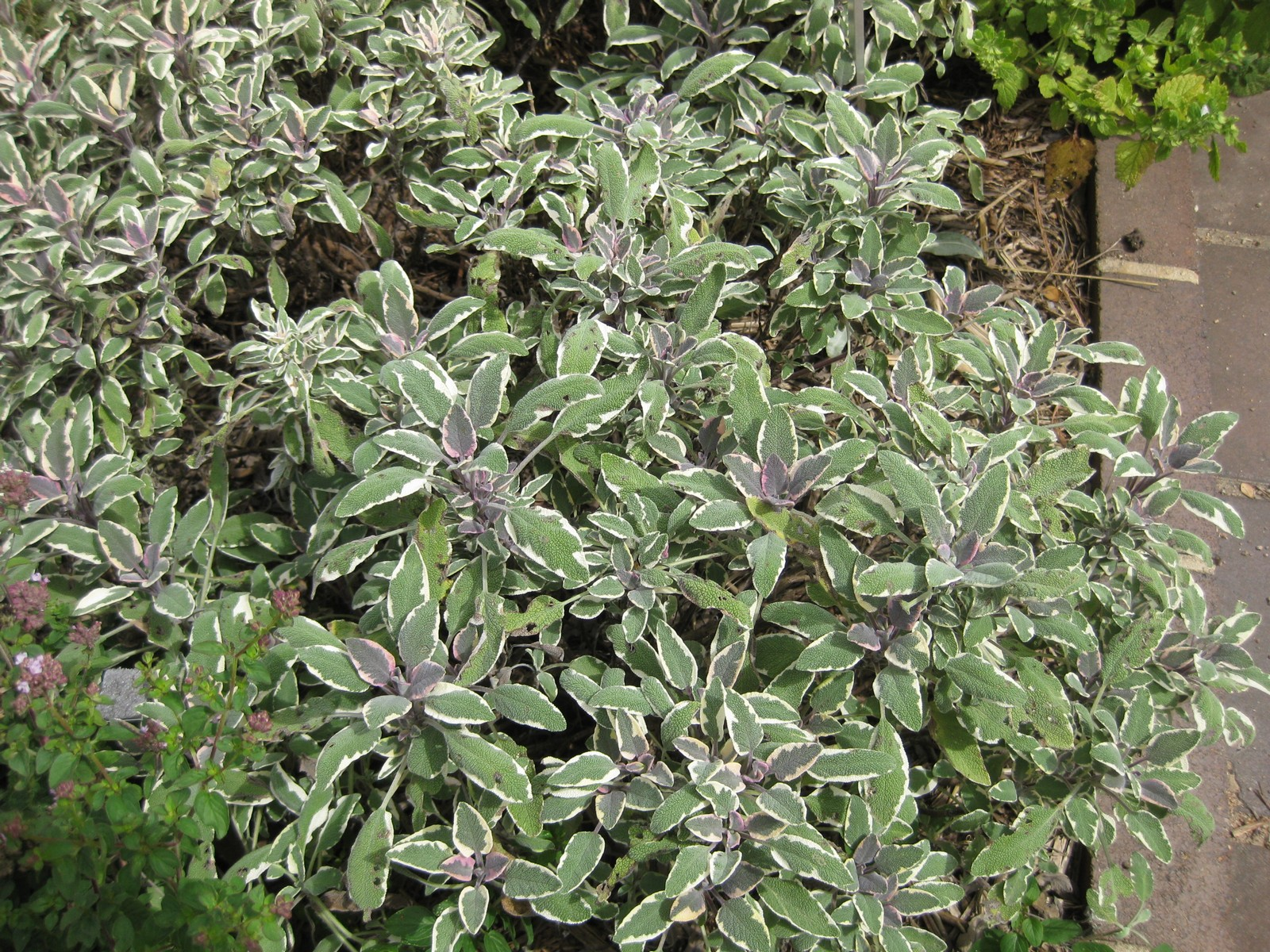 Photographed at the Royal Botanic Gardens Sydney (Australia) in January